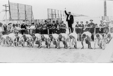 Start_of 400 m running event during 1904 Summer Olympics